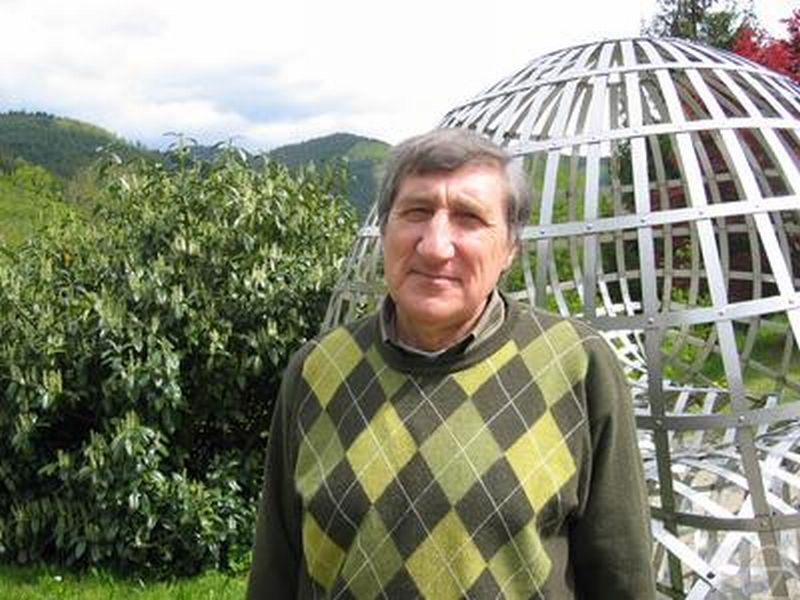 Leonid Pastur, Oberwolfach 2004